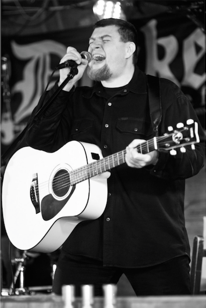 Концерт в Докер-пабе 9 февраля 2012 года. На фото Евгений Высоцкий.